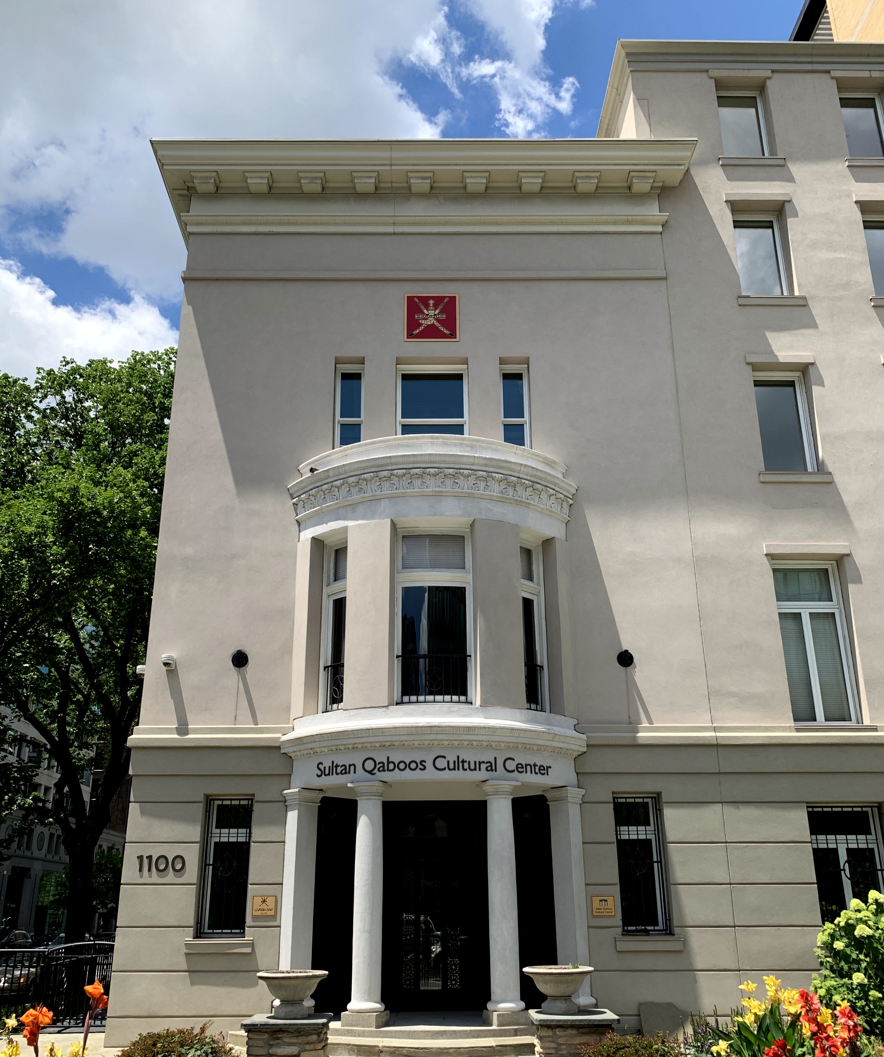 The Sultan Qaboos Cultural Center located at 1100 16th Street NW in Washington, D.C. The building which houses the center, constructed in 1908, is a contributing property to the Sixteenth Street Historic District. Previous occupants include Senator William Alden Smith, Senator Arthur Capper, the Nicaraguan embassy, the Honduran embassy, the Benjamin Franklin University, the WVSA School for Arts in Learning charter school, the American Beverage Association, and The Aluminum Association.